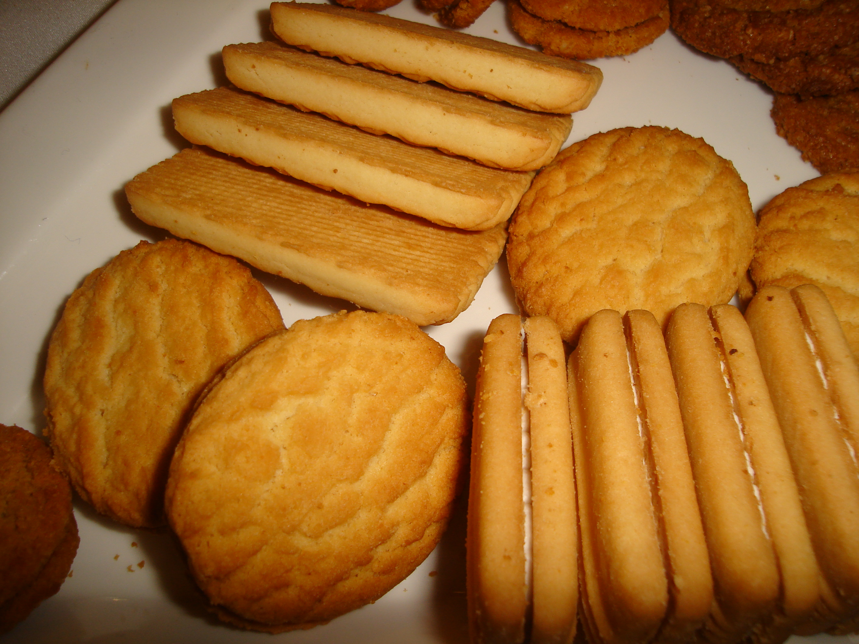 Biscuits on a plate, Goa India